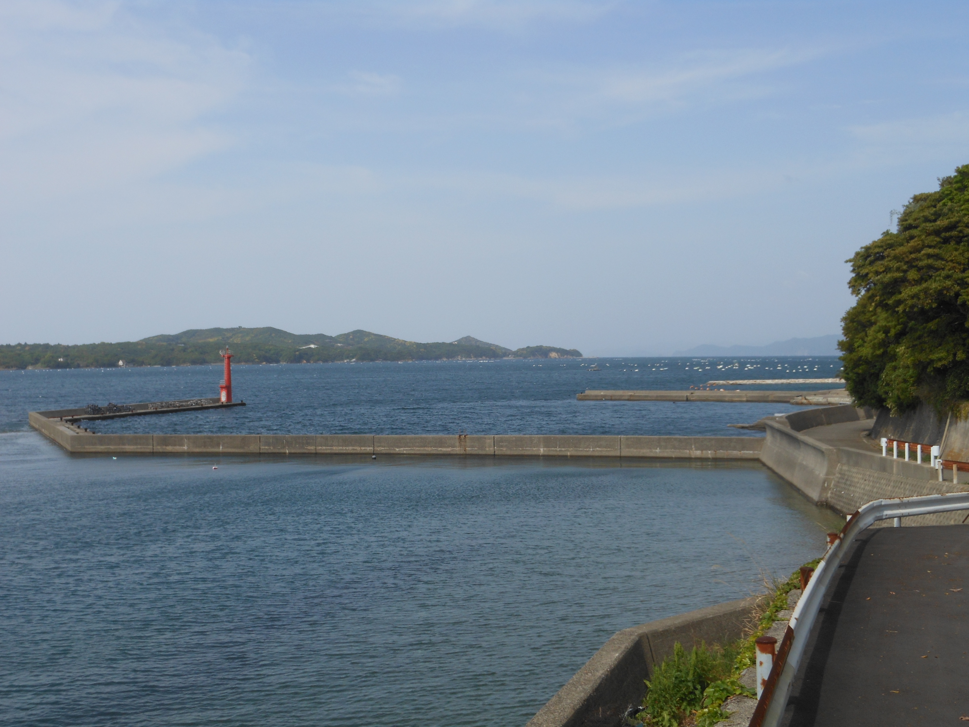 This is the Masaki Fishing Port in Masaki island, Shima, Mie, Japan.